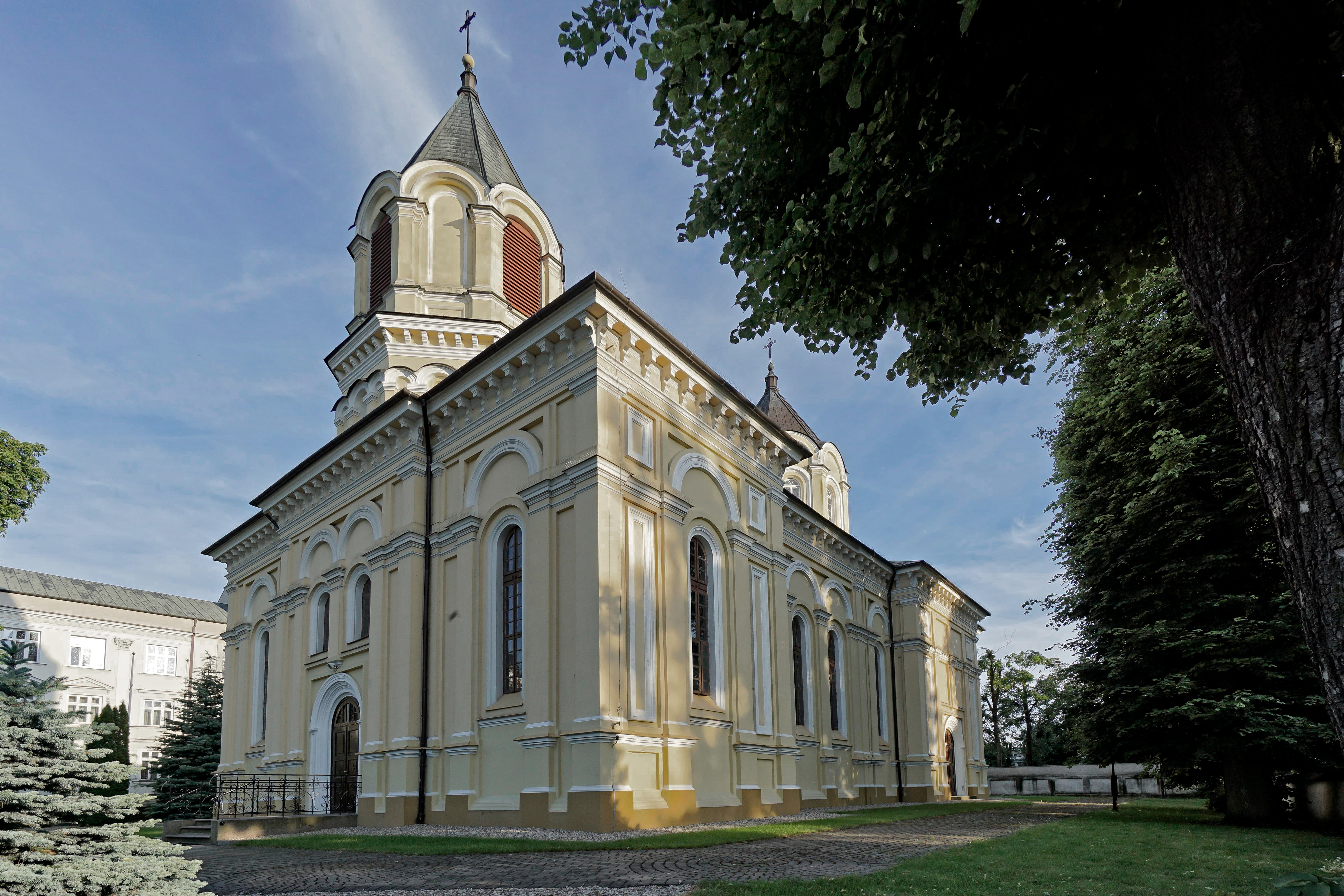 Church of the Assumption of Virgin Mary in Łomża 11.1985.